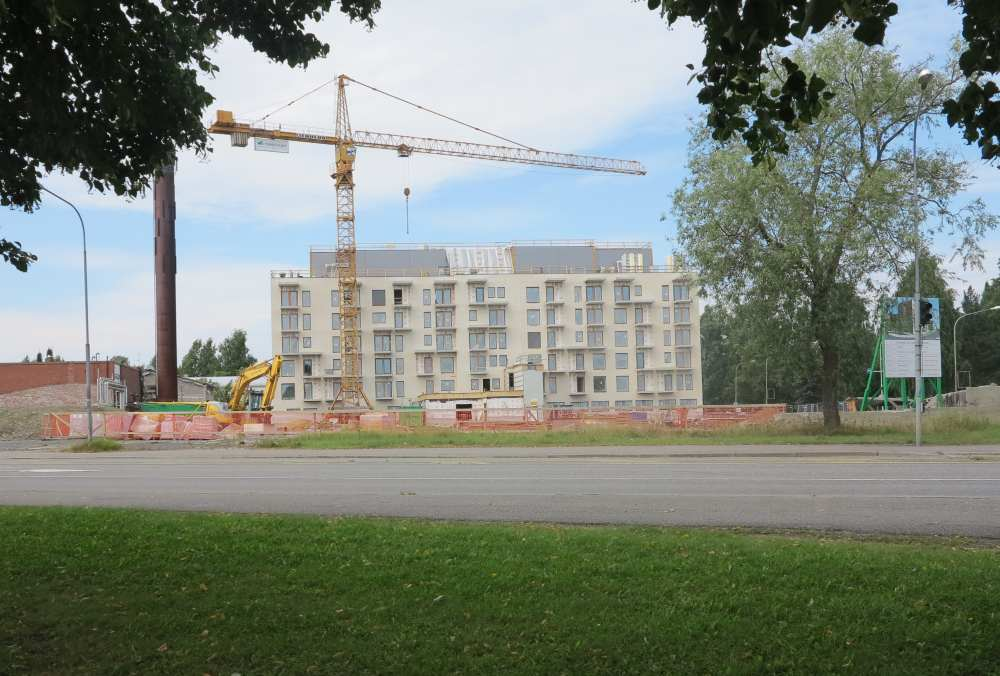 Senioripiha, elderly house in the centre of Joensuu